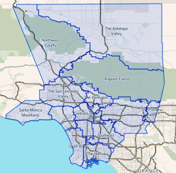 Illustration showing the general boundaries used in the Mapping L.A. project of the Los Angeles Times Other information Boundary map as drawn by the Los Angeles Times on a CC-by-SA background. Note at bottom right of map on the L.A. Times website noted above says "CC-by-SA" (which gives permission to use the map). There is a link there to which explains the meaning thereof. The base map is credited to The Times spells all this out at